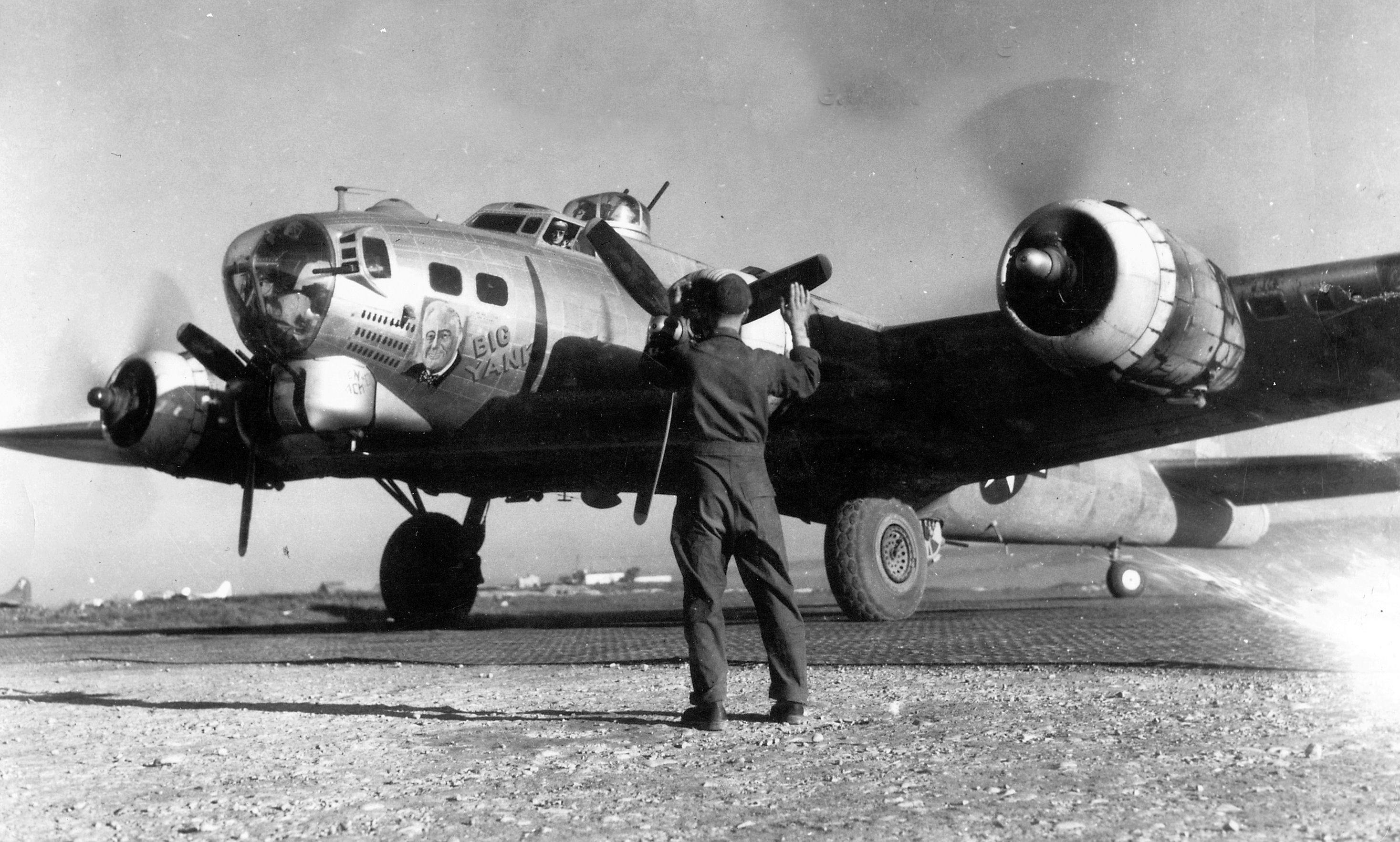 483BG 840th BS Douglas/Long Beach B-17G-50-DL Fortress 44-6405 "Big Yank" credited with 3 Me 262 kills and one probable Mar 24, 1945. Salvaged at Walnut Ridge, Arkansas Dec 28, 1945.